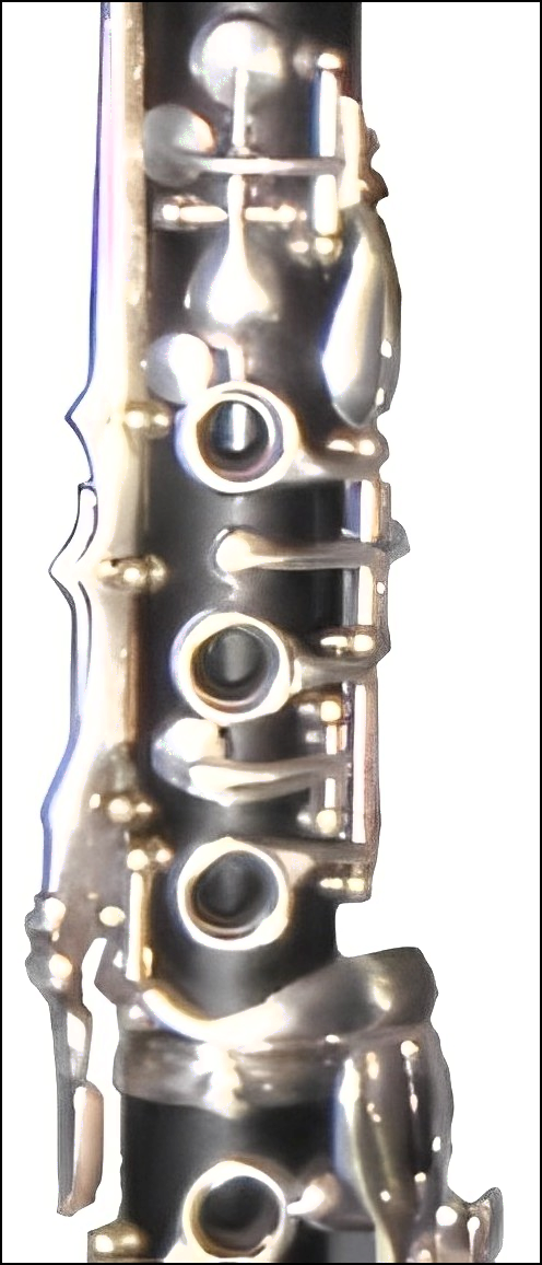 Open Keys on a clarinet